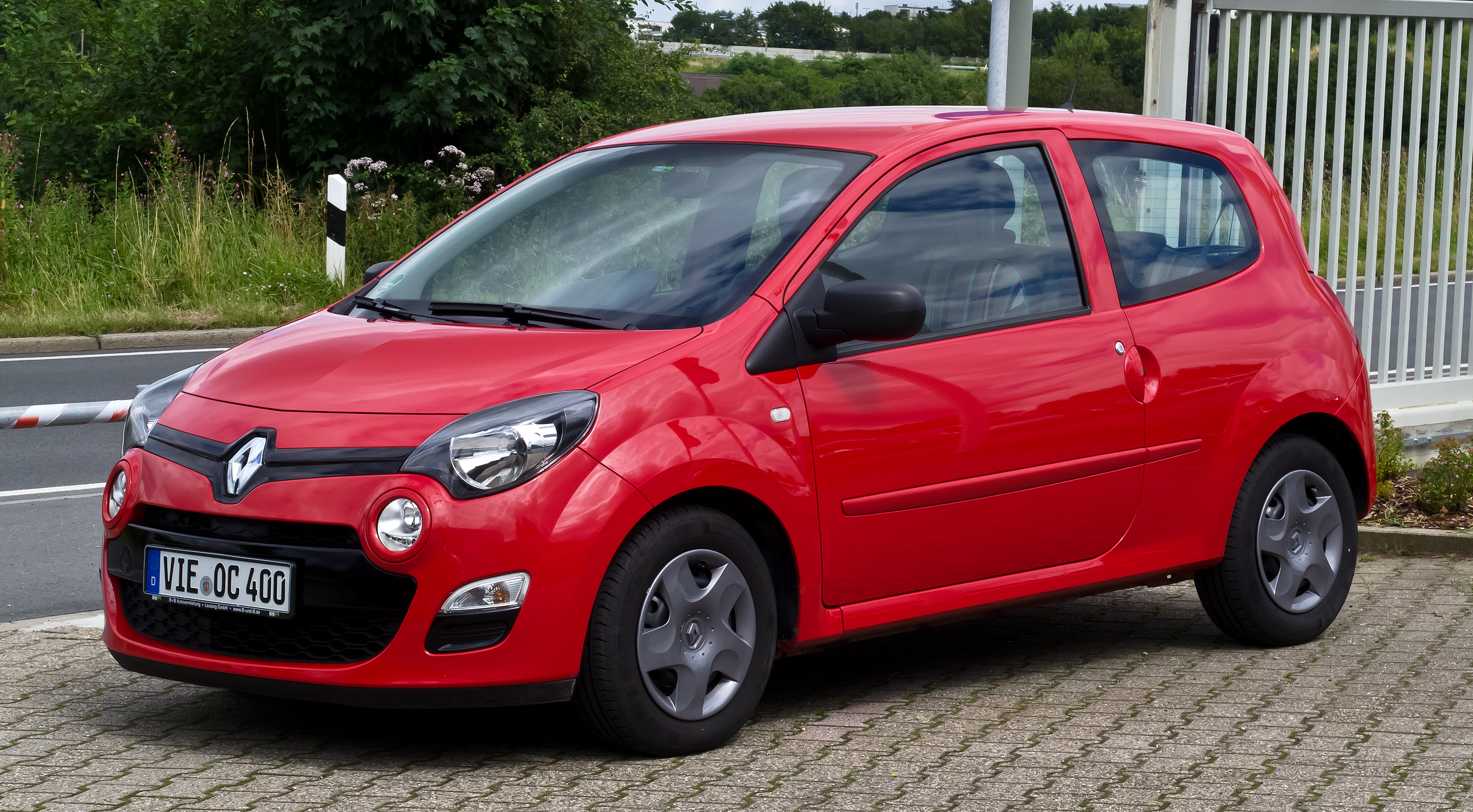 Renault Twingo (II, Facelift)